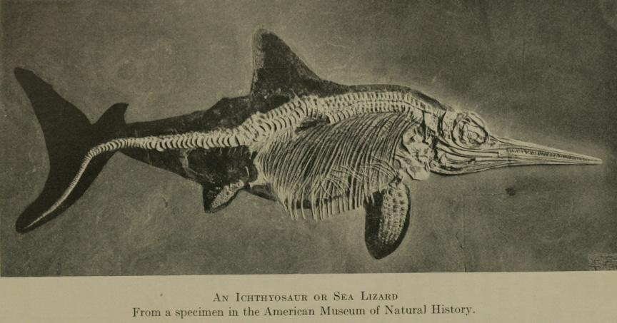 Stenopterygius quadriscissus, specimen AMNH 3861, Holzmaden, Württemburg, Germany. Early Jurassic, 180 mya [1]